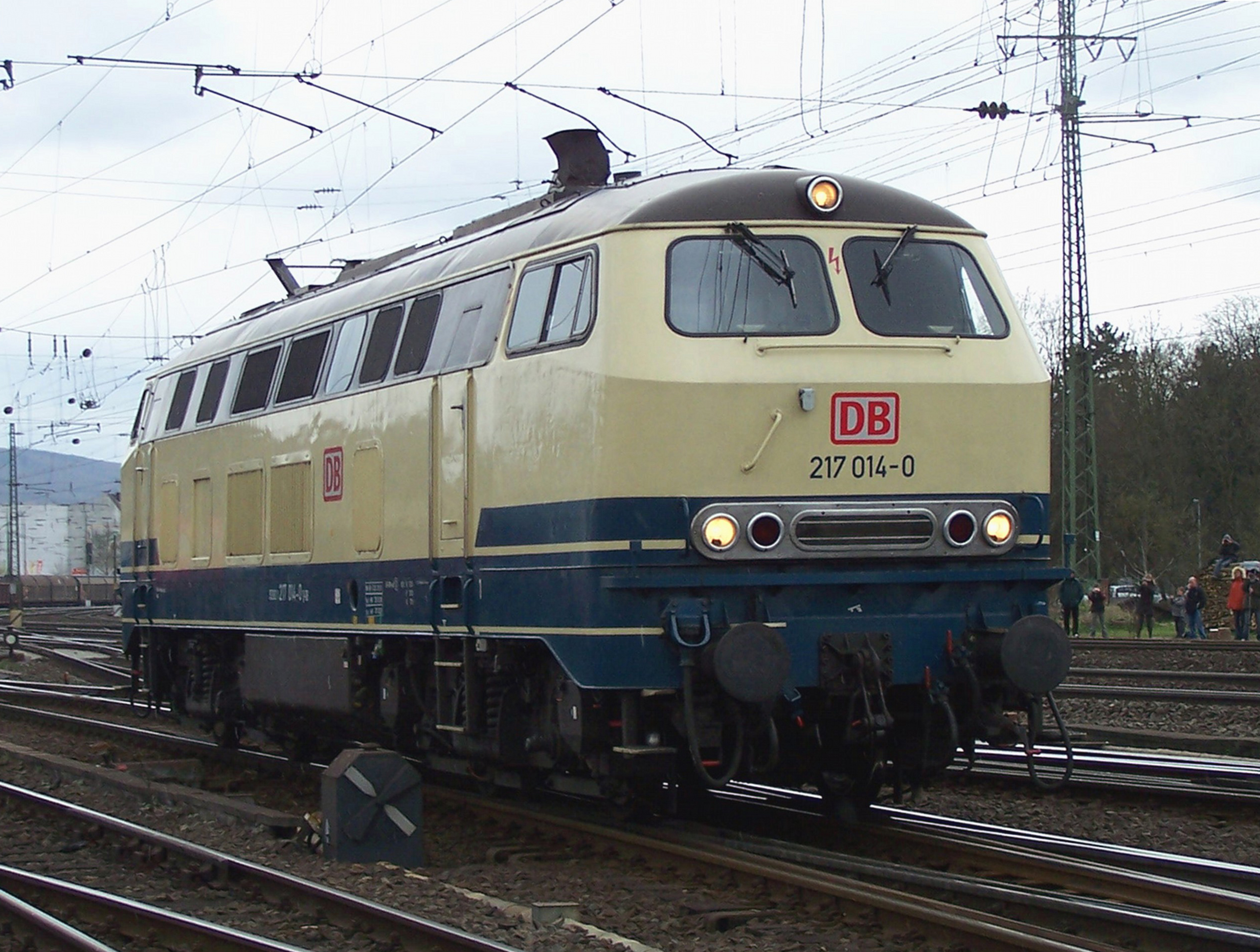 Diesel locomotive 217 014 during a locomotive parade at the DB Museum in Koblenz-Lützel, a local branch of the Transport Museum in Nuremberg, April 2010